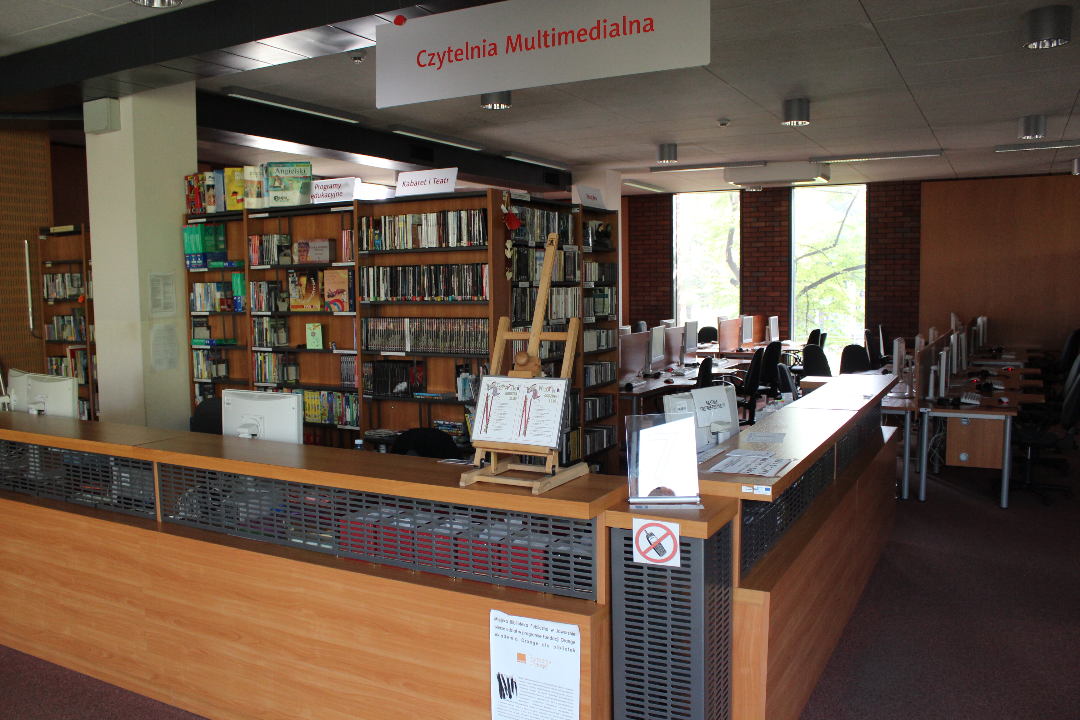 Multimedia in City Public Library in Jaworzno.